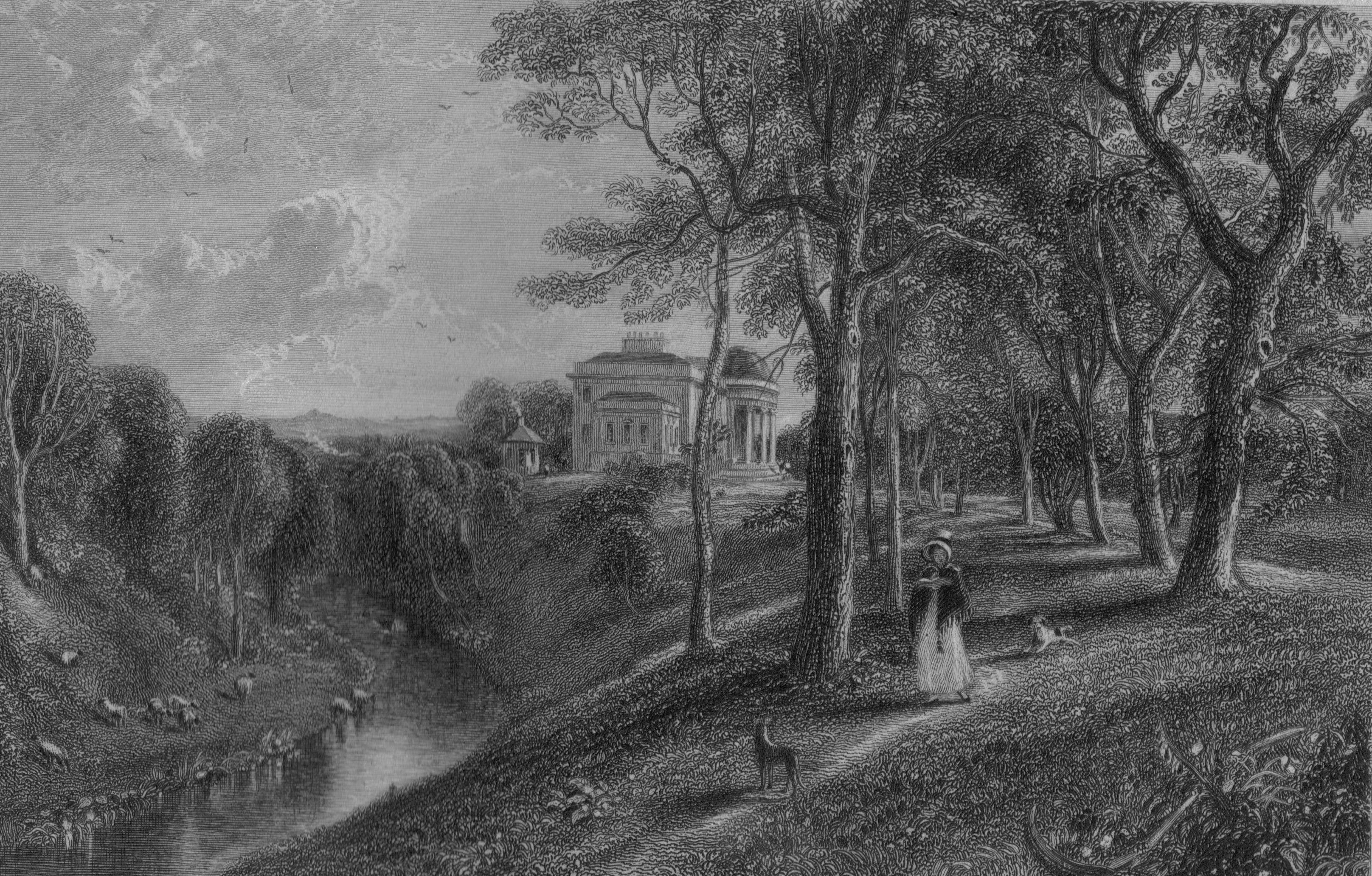 Coilsfield House, South Ayrshire, Scotland. Now demolished